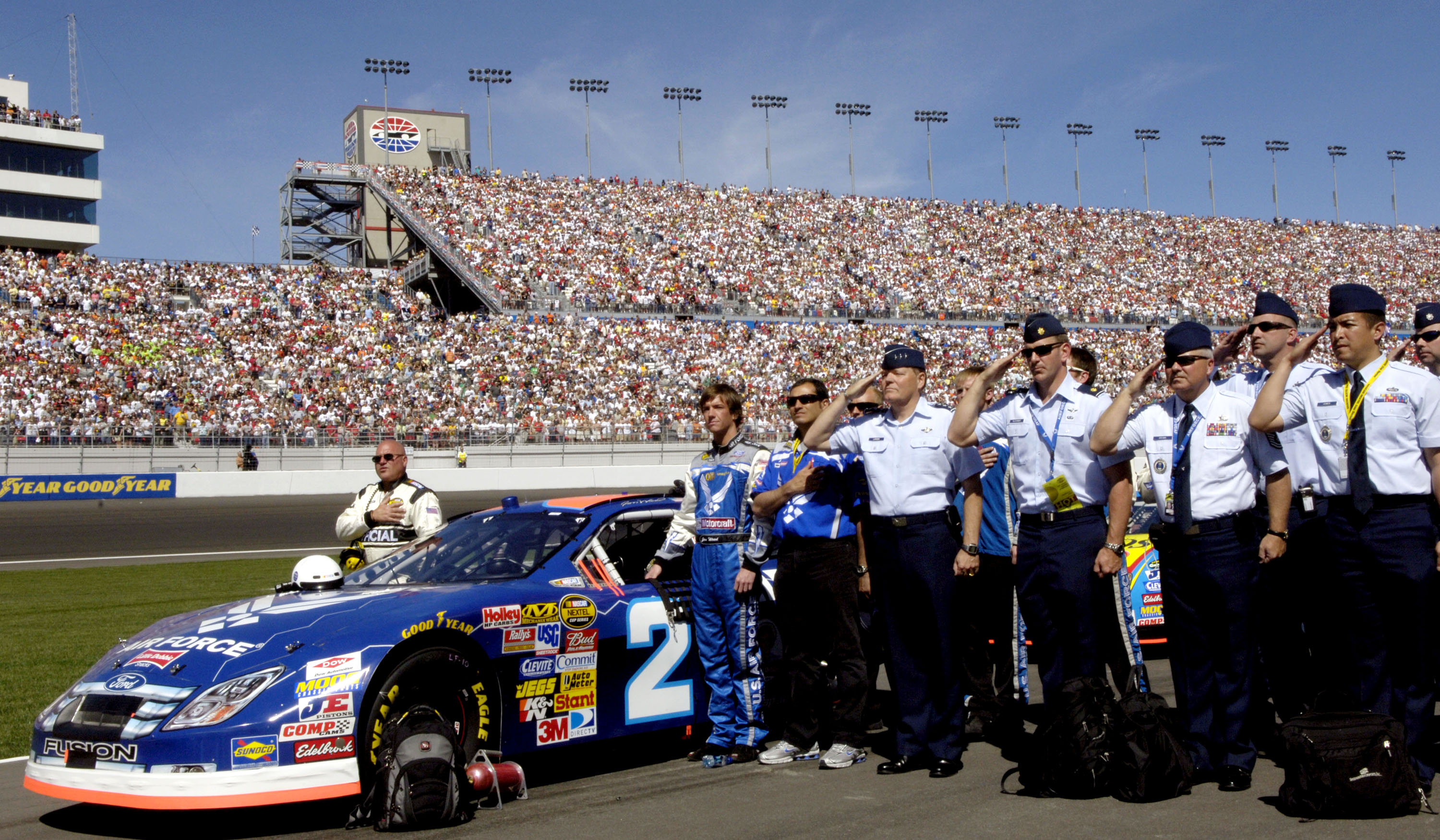 Jon Wood driver of Air Force #21 car, crew members, and Air Force representatives pay respect during the National Anthem March 11 at Las Vegas Motor Speedway before the start of the NASCAR Nextel Cup UAW Daimler-Chrysler 400. (U.S. Air Force photo/Master Sgt. Kevin J. Gruenwald)